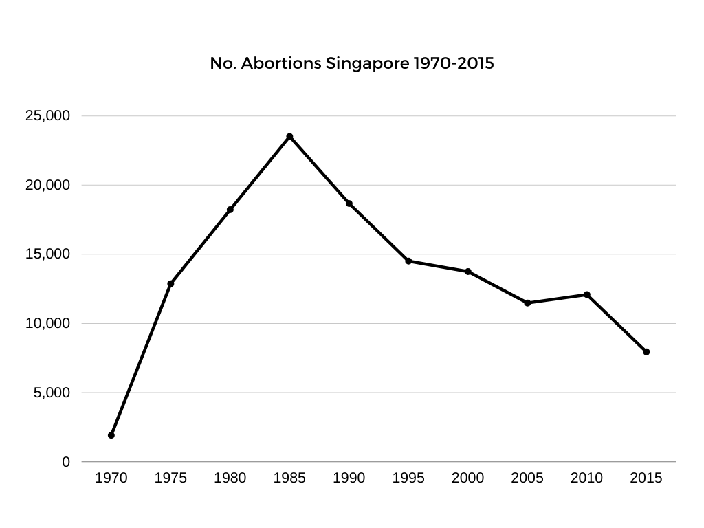 This graph shows the number of abortions completed per year in five-year increments between 1970 and 2015. The x axis represents the years and the y axis represents the number of abortions. Source: "Historical abortion statistics, Singapore". Retrieved 2020-05-25.